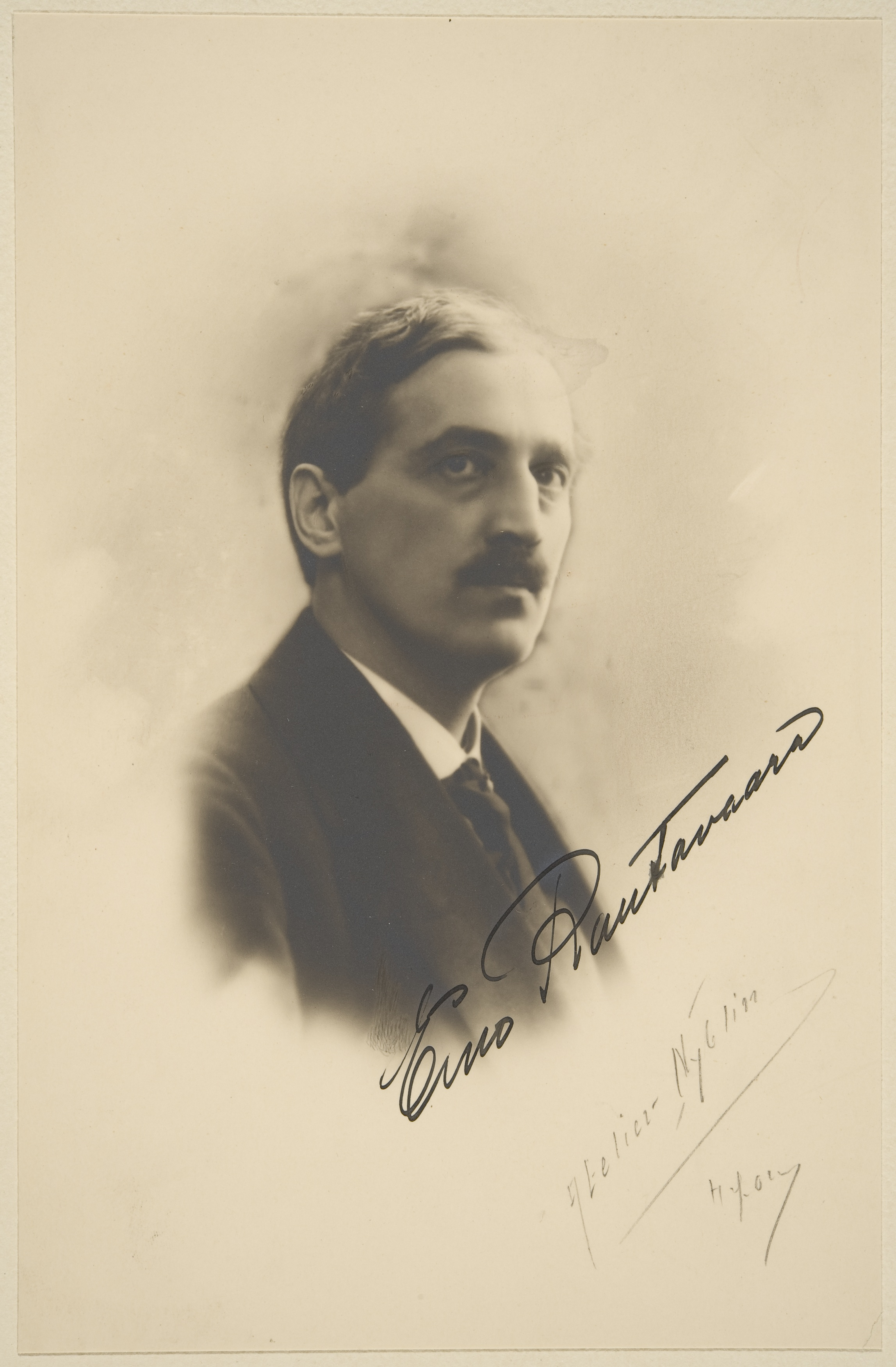 The Finnish opera singer Eino Rautavaara in the 1910s